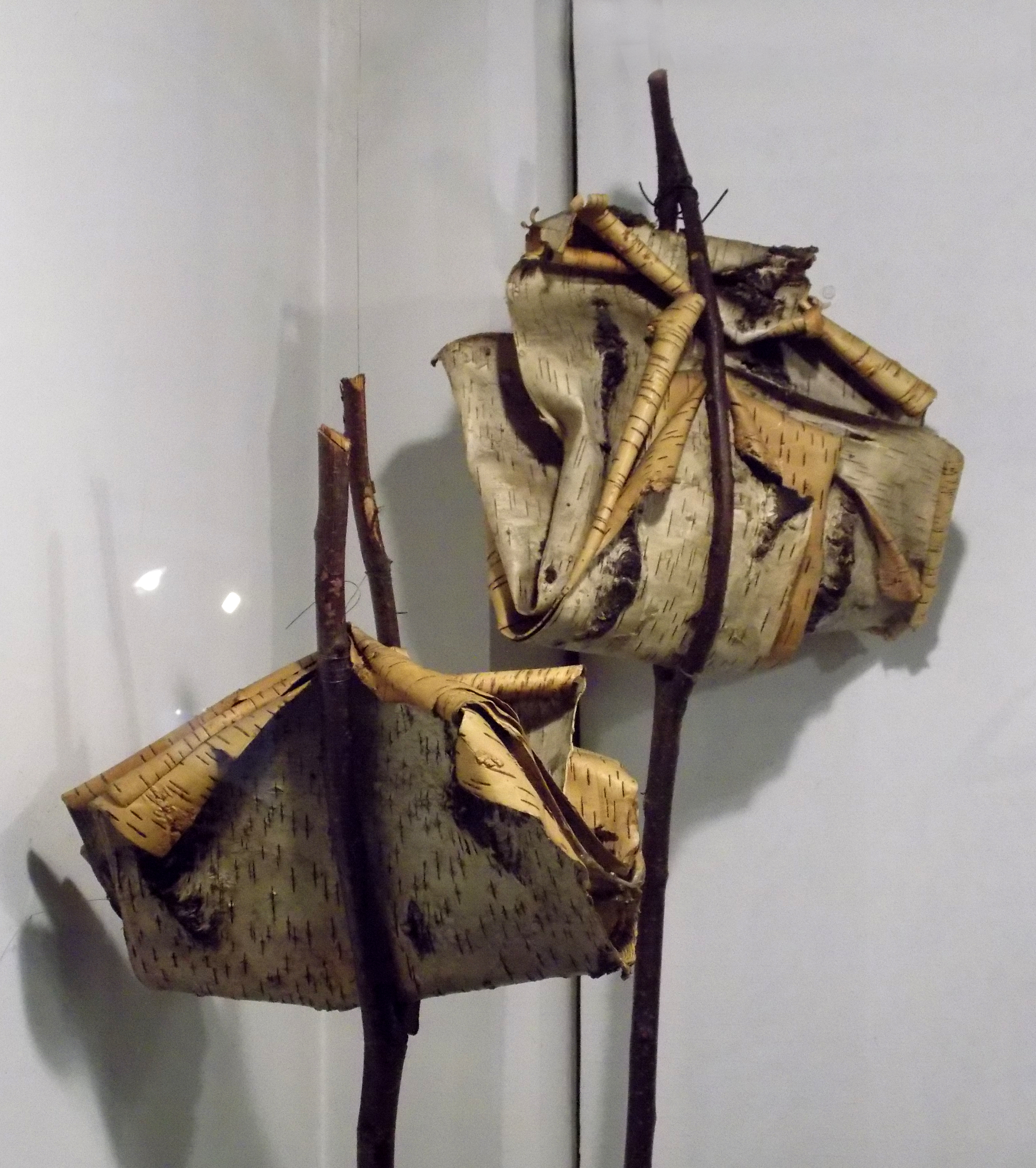 St. Peter's Day torches made of birch bark, which are lit as part of religious customs during Feast of Saints Peter and Paul (Ethnographic Museum, Belgrade)